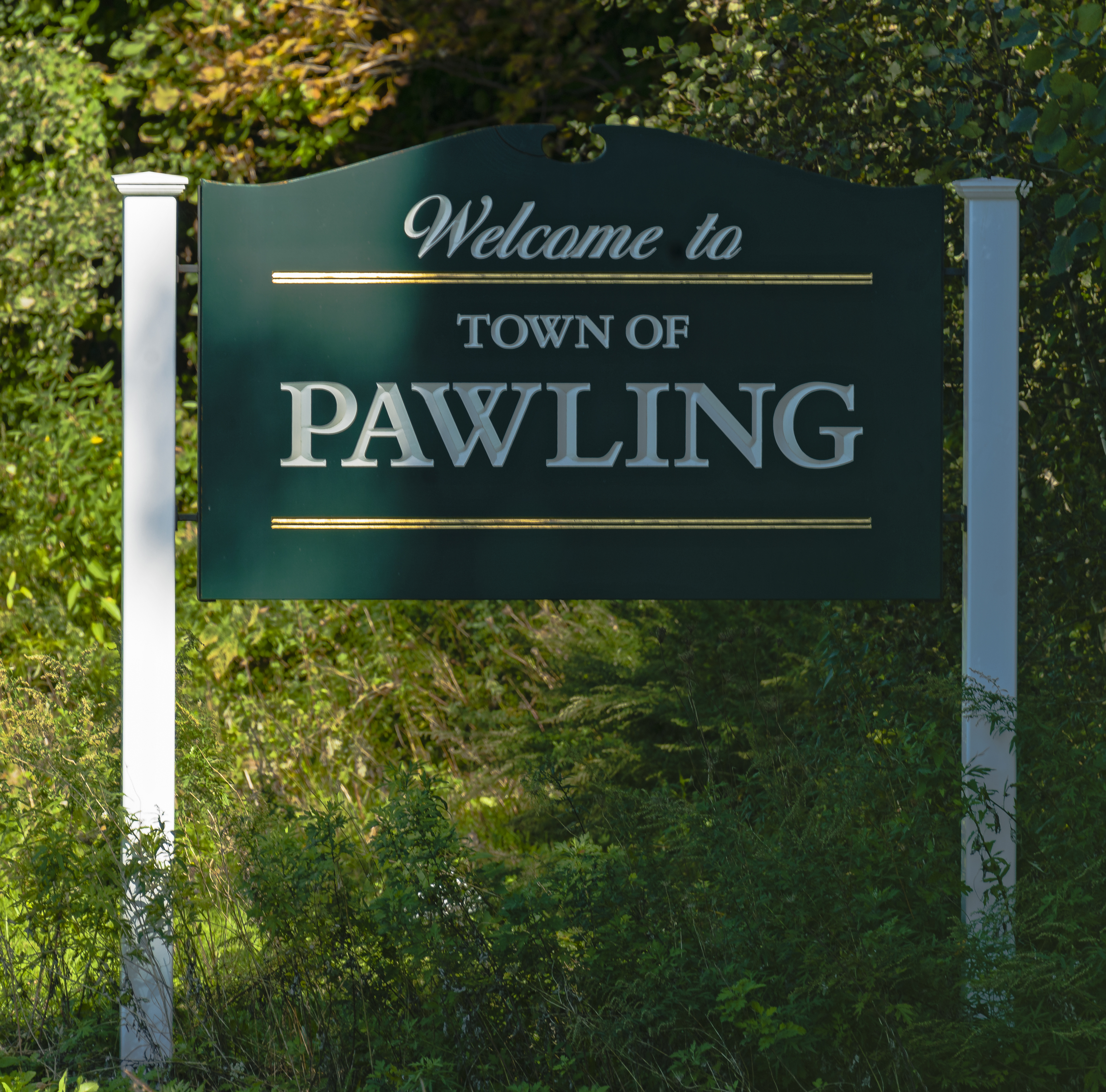 Sign along New York State Route 22 at Dutchess–Putnam county line welcoming northbound travelers to the Town of Pawling